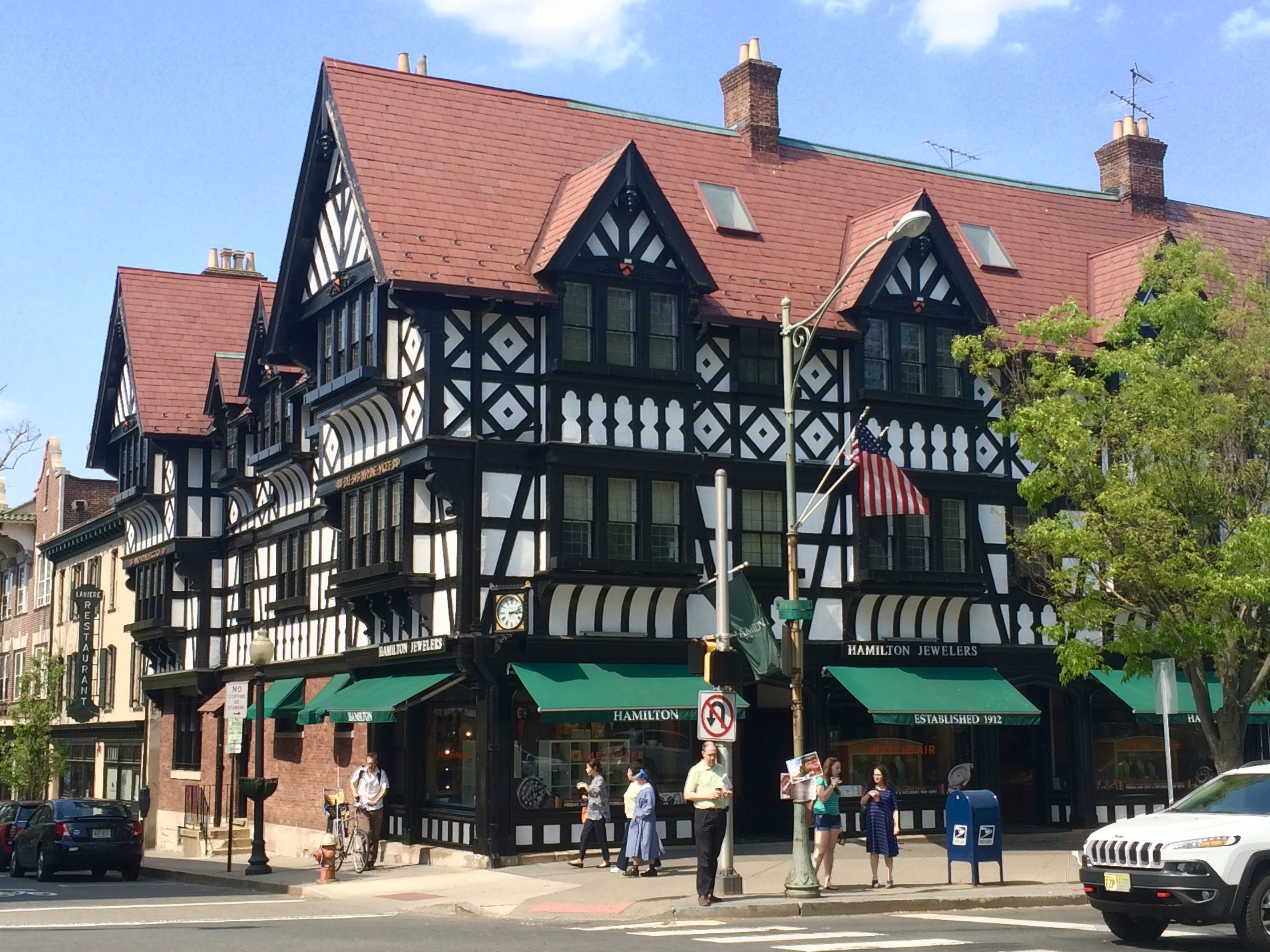 Designed by Raleigh C. Gildersleeve for Moses Taylor Pyne in Tudor Revival style. It originally housed dormitories above commercial space as a way to integrate the Princeton University campus with the town. Built in 1896